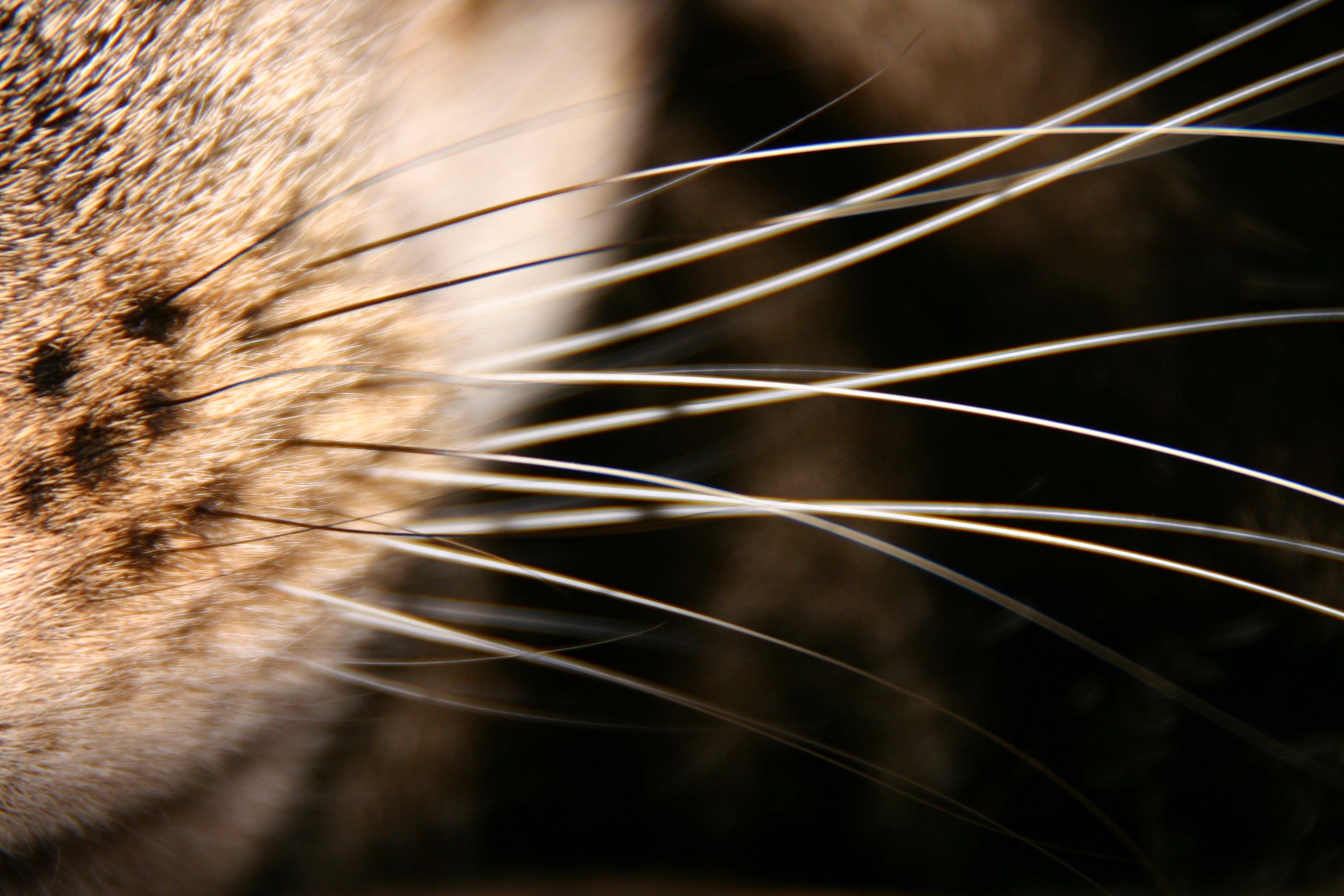 Black and white whiskers of sleeping Dutch cat